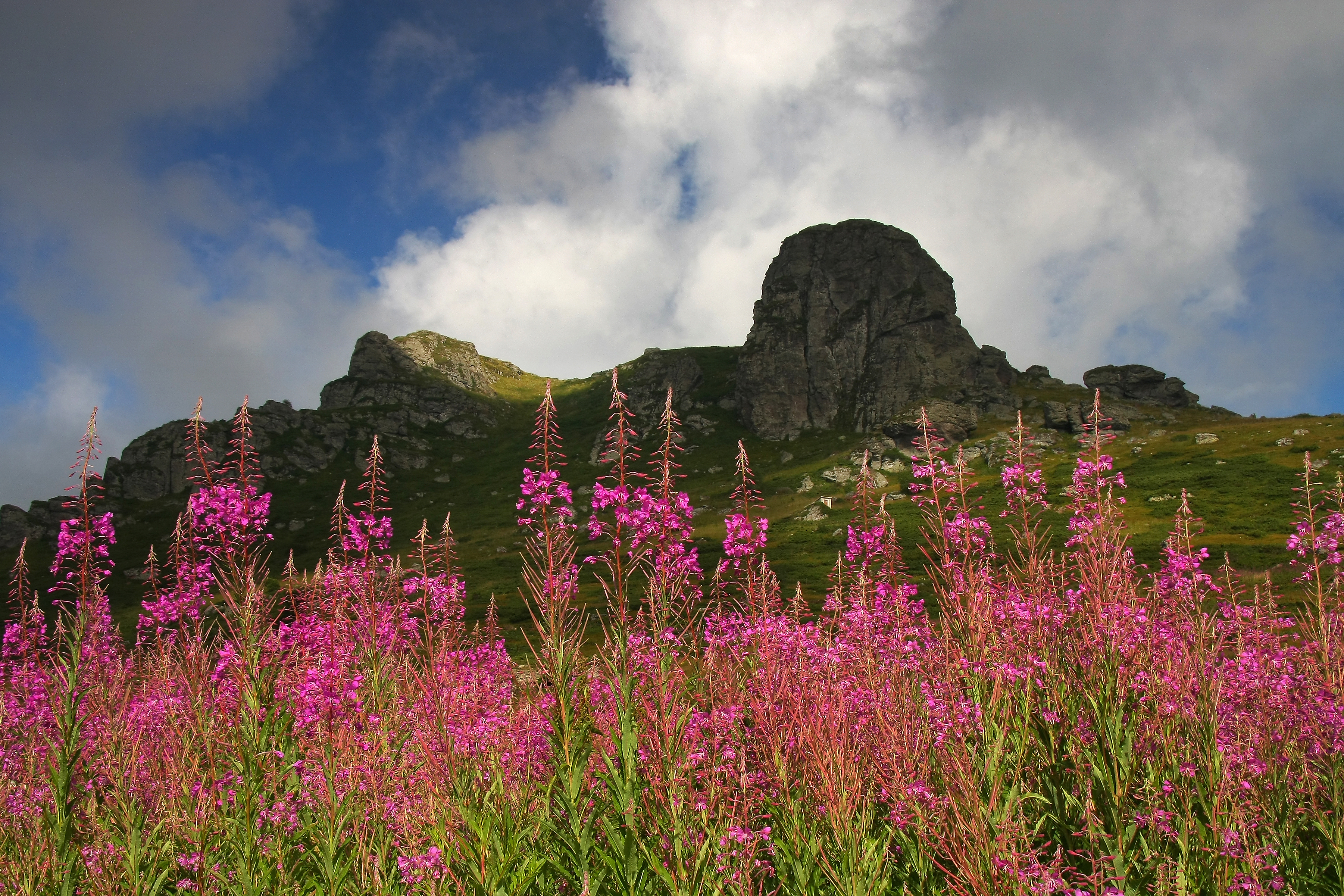 Ово је фотографија заштићеног природног добра у Србији под шифром: ПП16This is a a photo of a natural area in Serbia with ID: ПП16 Stara planina